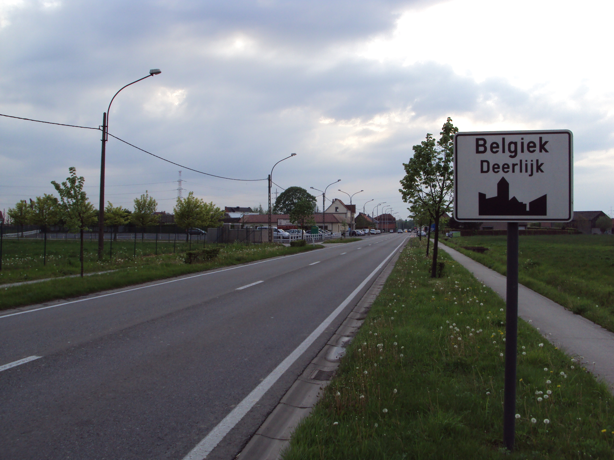 Belgiek, a hamlet of Deerlijk